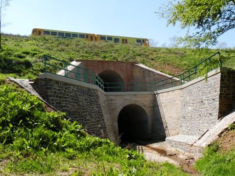 The viaduct by Deštnice